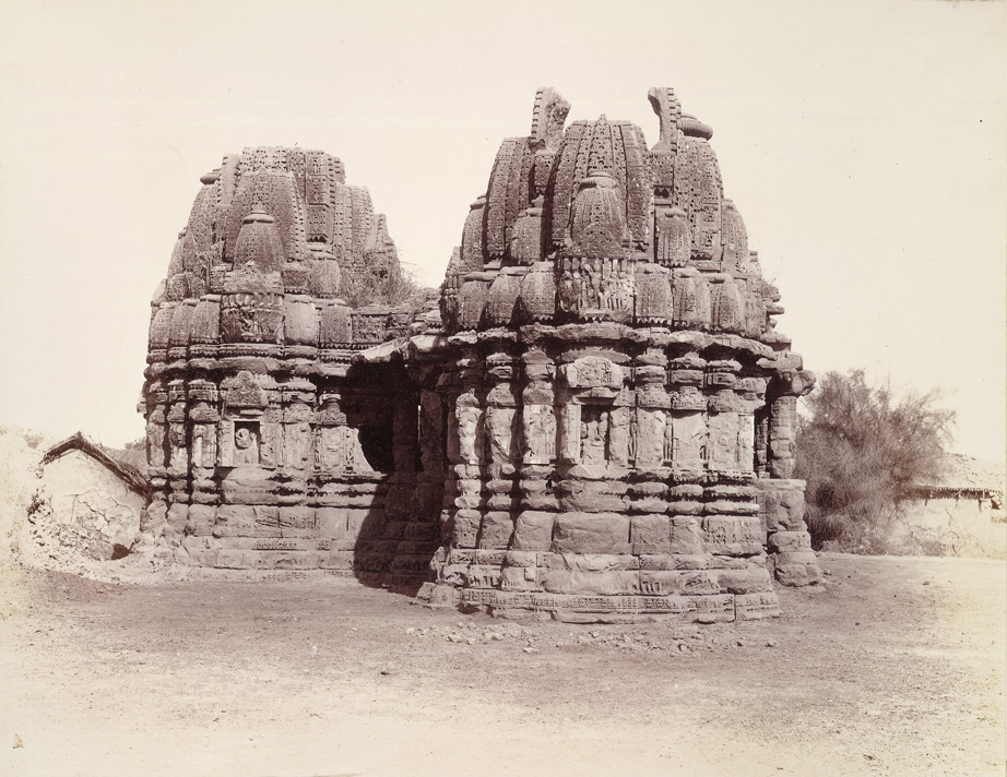 Photograph of the old temple at Kasara, Gujarat, from the south-west, taken by Henry Cousens in the 1880s, from the Archaeological Survey of India. The small village of Kasara is located 14 miles north-west of Patan in Gujarat. This temple at Kasara, which dates to the 12th century, has a triple-shrine plan and an octagonal shaped mandapa or columned hallway. Each shrine is devoted to separate divinities of the Trimurti which includes Shiva, Vishnu, and Brahma.